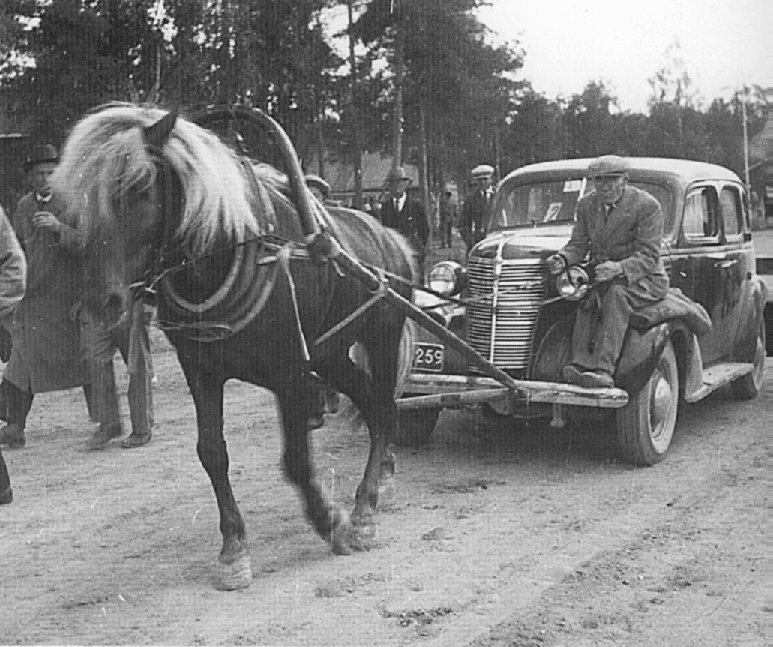 Finnhorse stallion Vienti 4817 doing a horse show pulling test (2. class), pulling the measuring car. Breeder J. H. Vesterinen exceptionally sitting on the car, possibly allowed to do so because of his old age. Car pulling was part of stallions' show prowess in the 1st and 2nd class during 1936–1970.